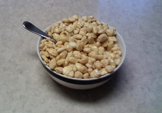 A bowl of Kellogg's Corn Pops.